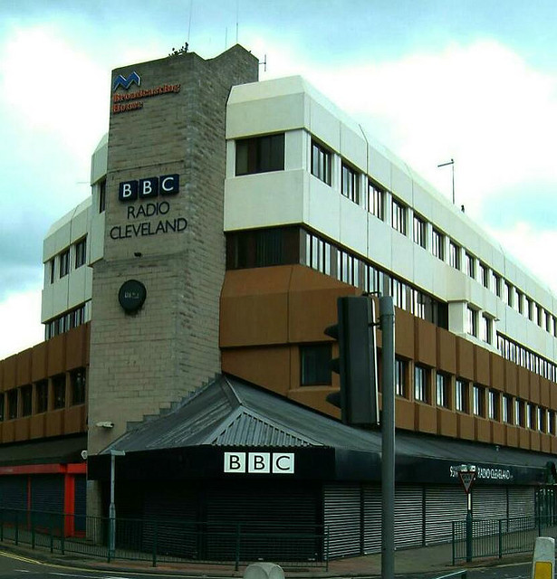 A newish building to the town centre. A centre for news and views and a superb radio station